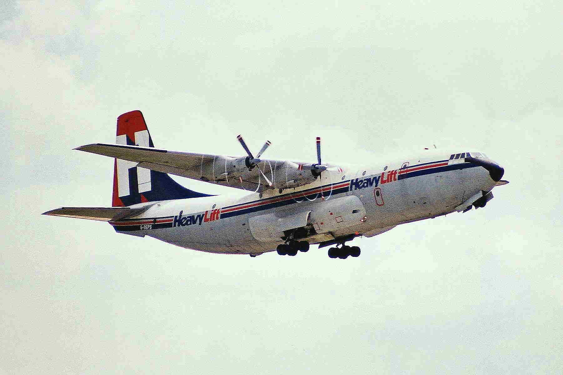 Prop vortices leaving trails in the damp morning air.